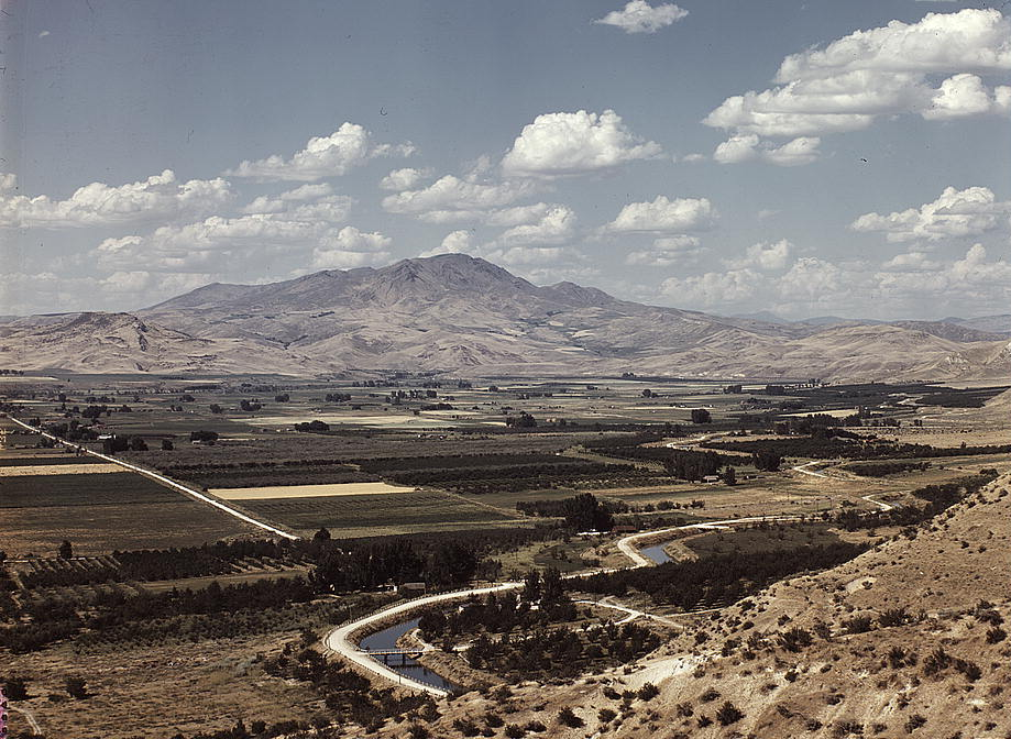 Cherry orchards, farm lands and irrigation ditch at Emmett, Idaho.